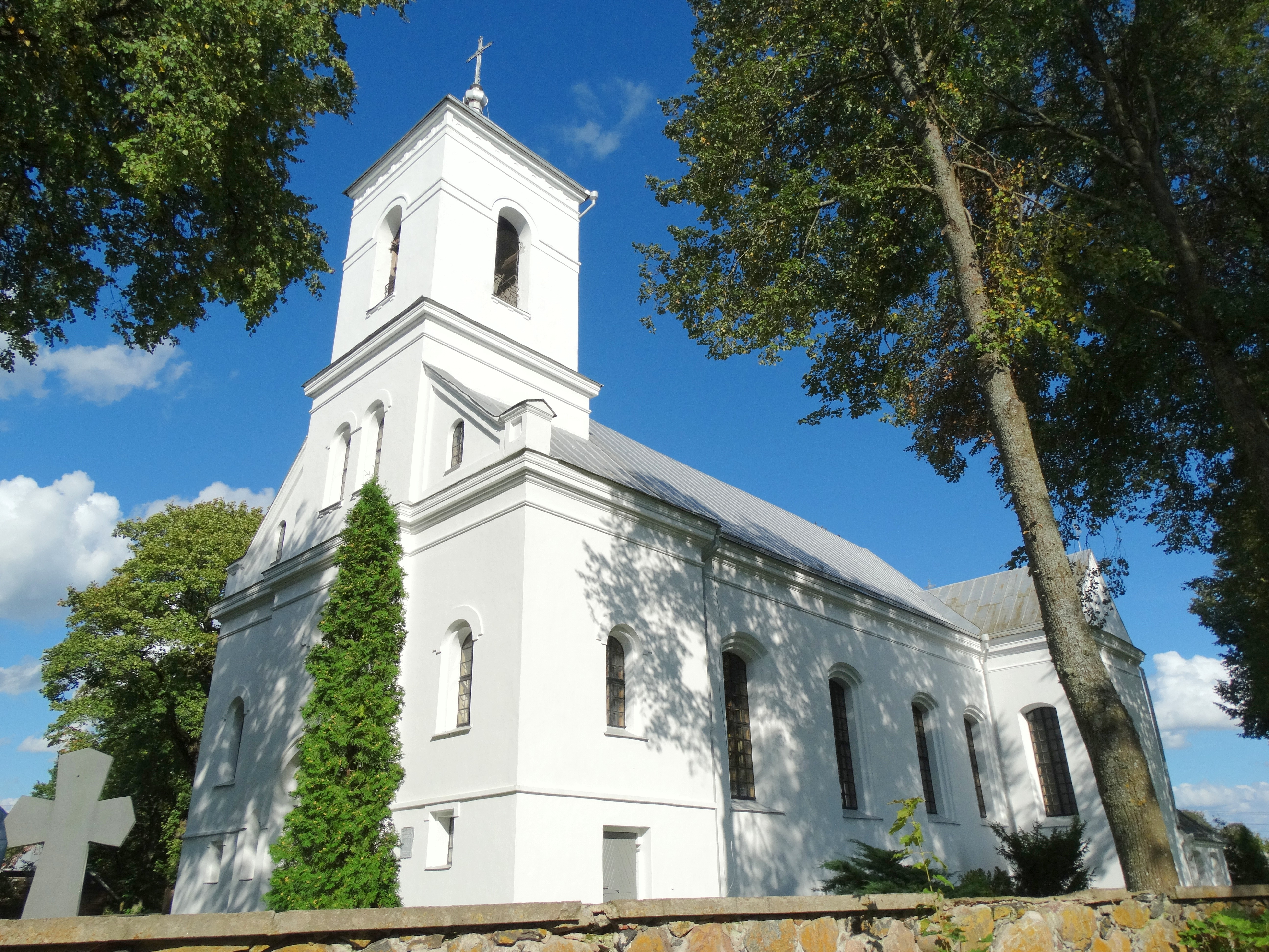 Saint George church, Vyžuonos, Utena district, Lithuania